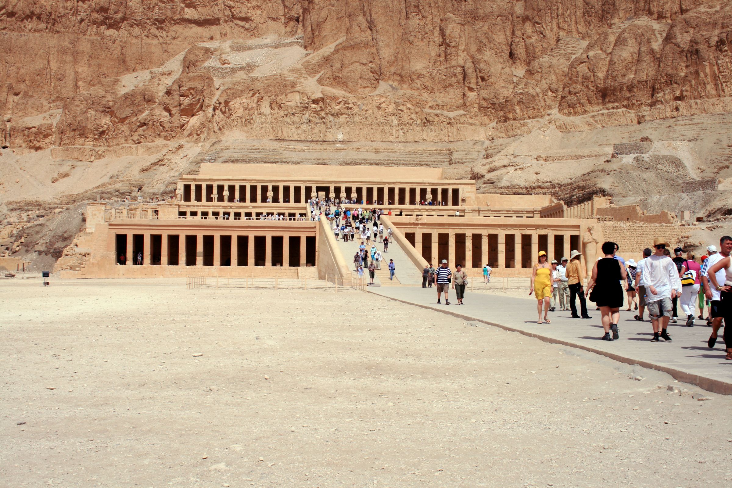 View on Mortuary Temple of Hatshepsut near Luxor, Egypt